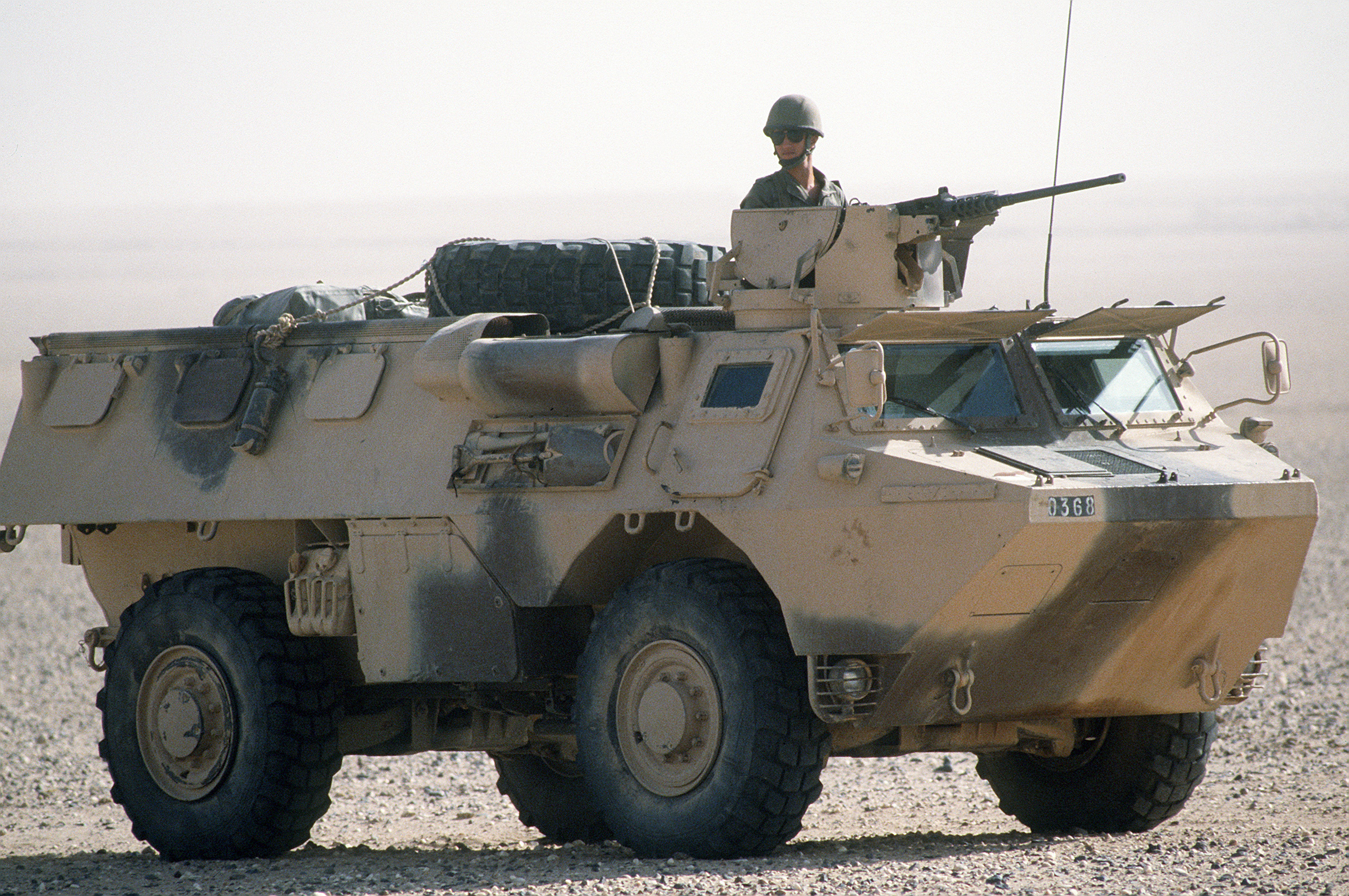 A soldier mans an M-2 .50-caliber machine gun atop a French Renault VAB 4x4 armored personnel carrier, part of a display of Allied armor during Operation Desert Shield.